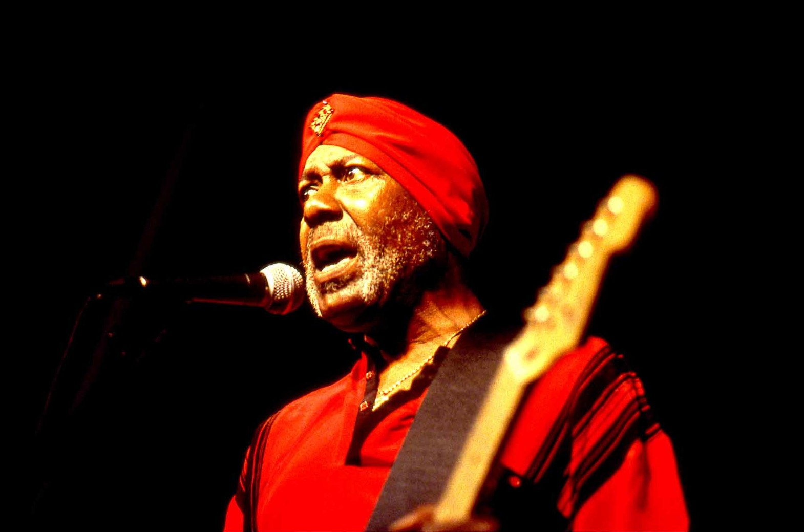 Sonny Rhodes in 2000 at JJ's Blues Club San Jose California; guitar and vocals